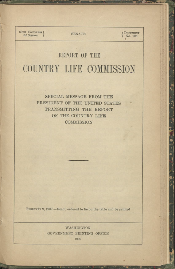 Cover for the Report of the Country Life Commission appointed by President Theodore Roosevelt.